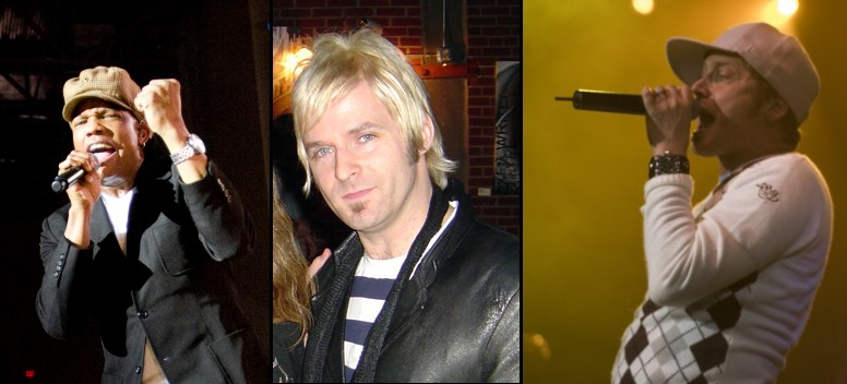 The members of dc Talk: Michael Tait, Kevin Max, Toby McKeehan